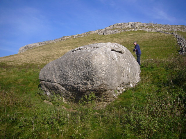 Devil's Stone on West side of Addleborough